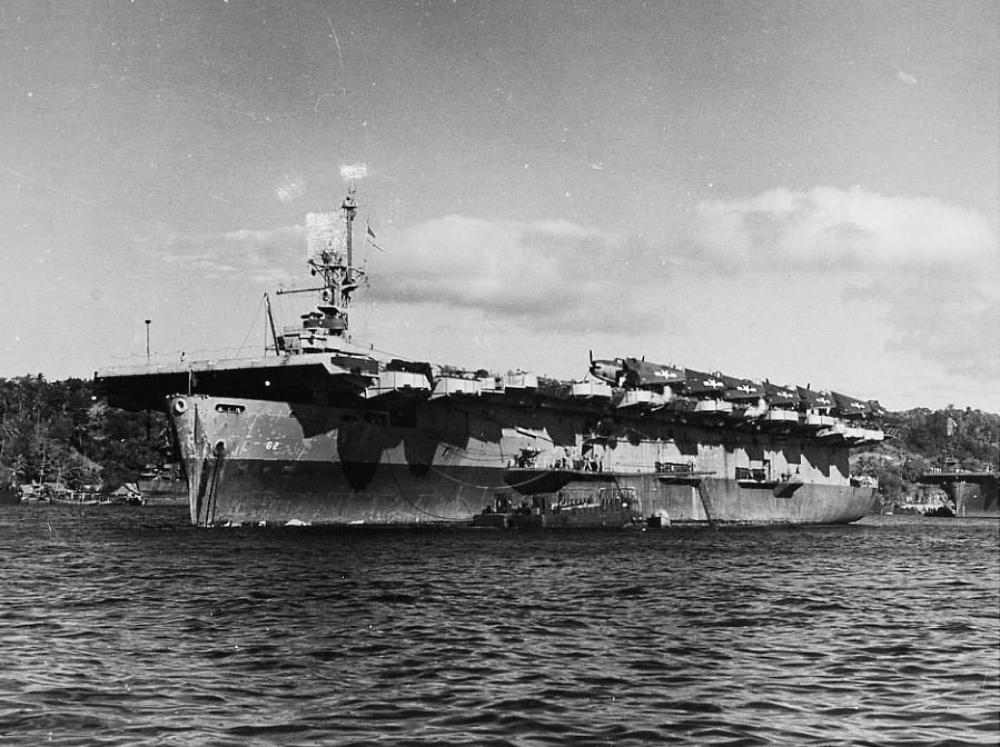 The U.S. Navy escort carrier USS Natoma Bay (CVE-62) taking aboard stores in Tulagi harbour, Solomon Islands, on 8 April 1944.